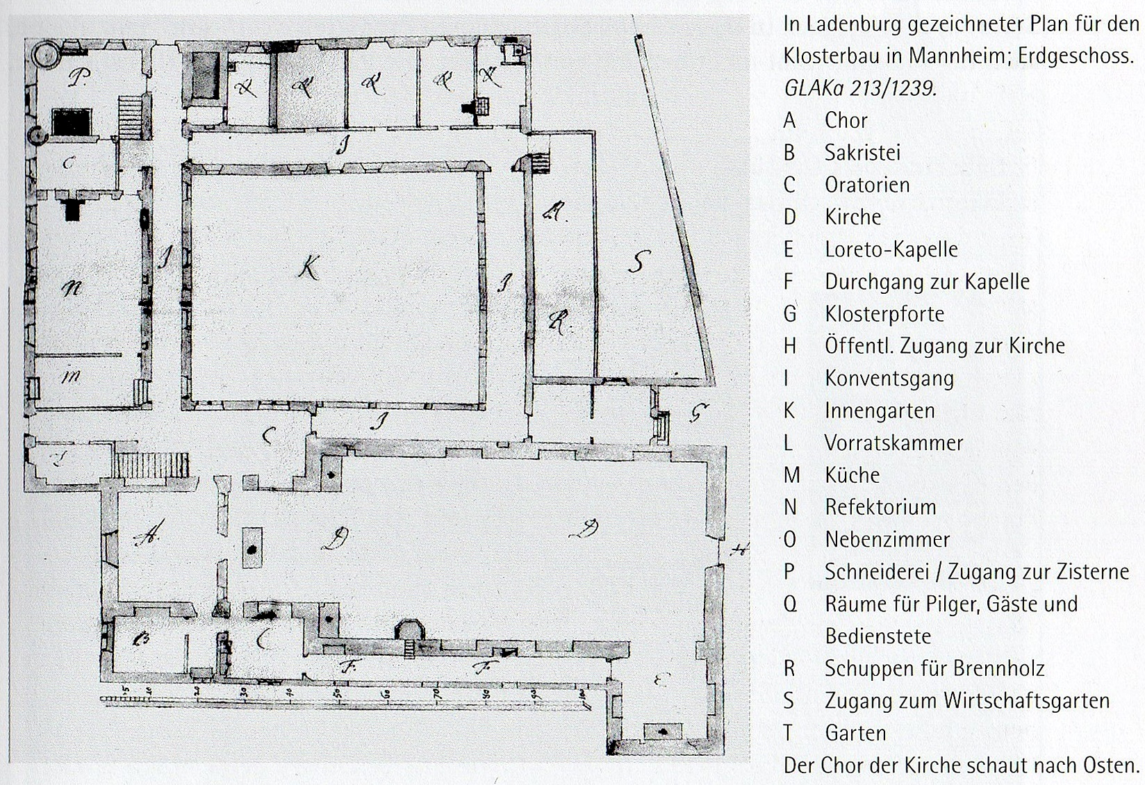 Plan des Kapuzinerklosters Mannheim